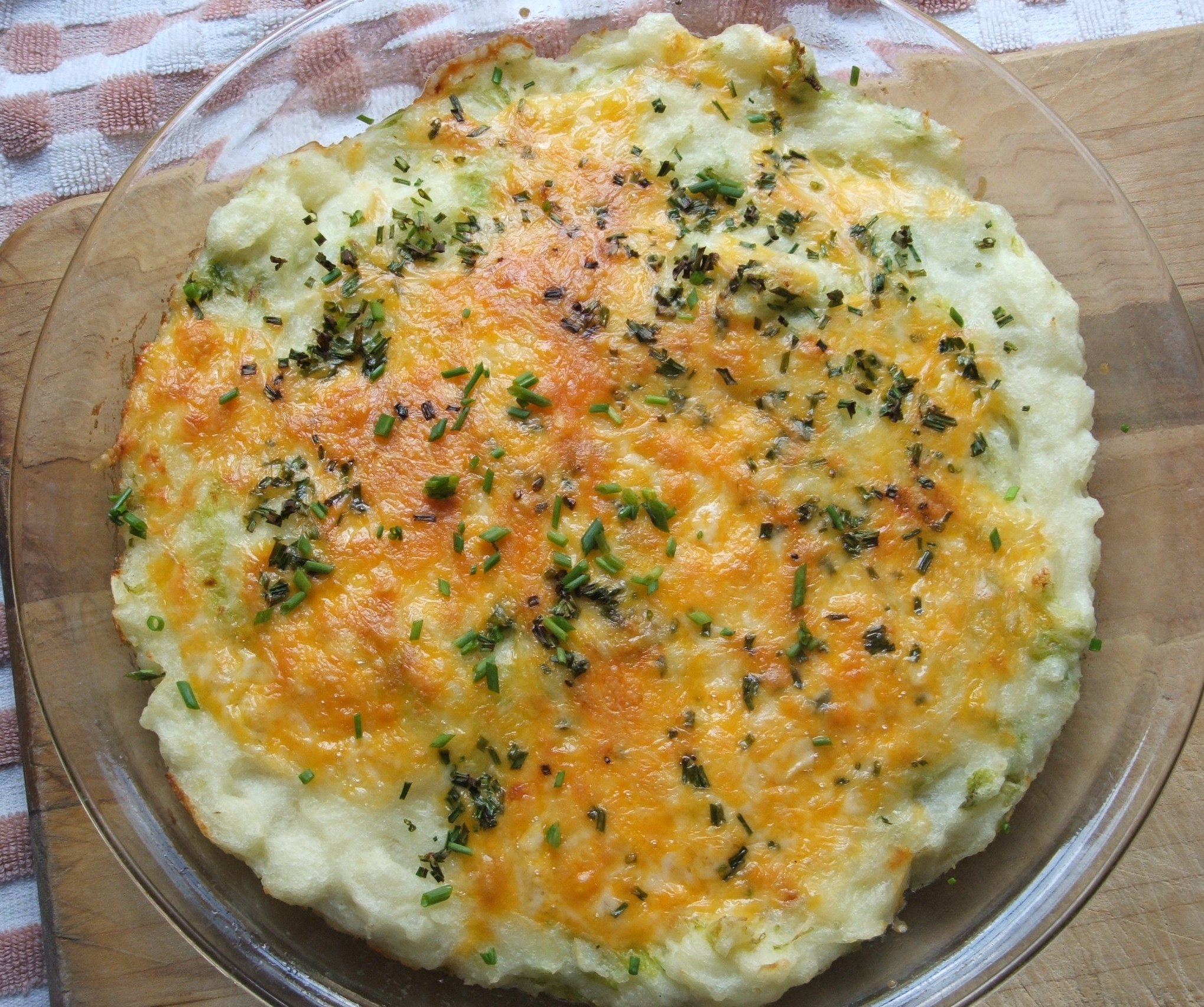 Rumbledethumps is a traditional dish from the Scottish Borders, United Kingdom. The main ingredients are potato, cabbage and onion. Similar to Irish colcannon, and English bubble and squeak, it is either served as an accompaniment to a main dish or as a main dish itself.